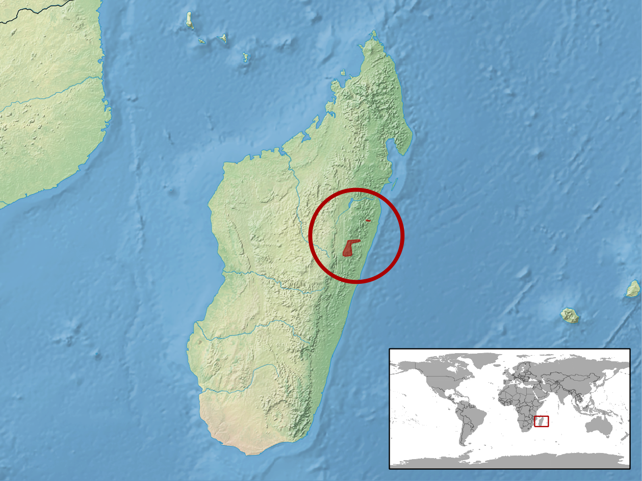 geographic distribution of Calumma furcifer (Native: Madagascar)